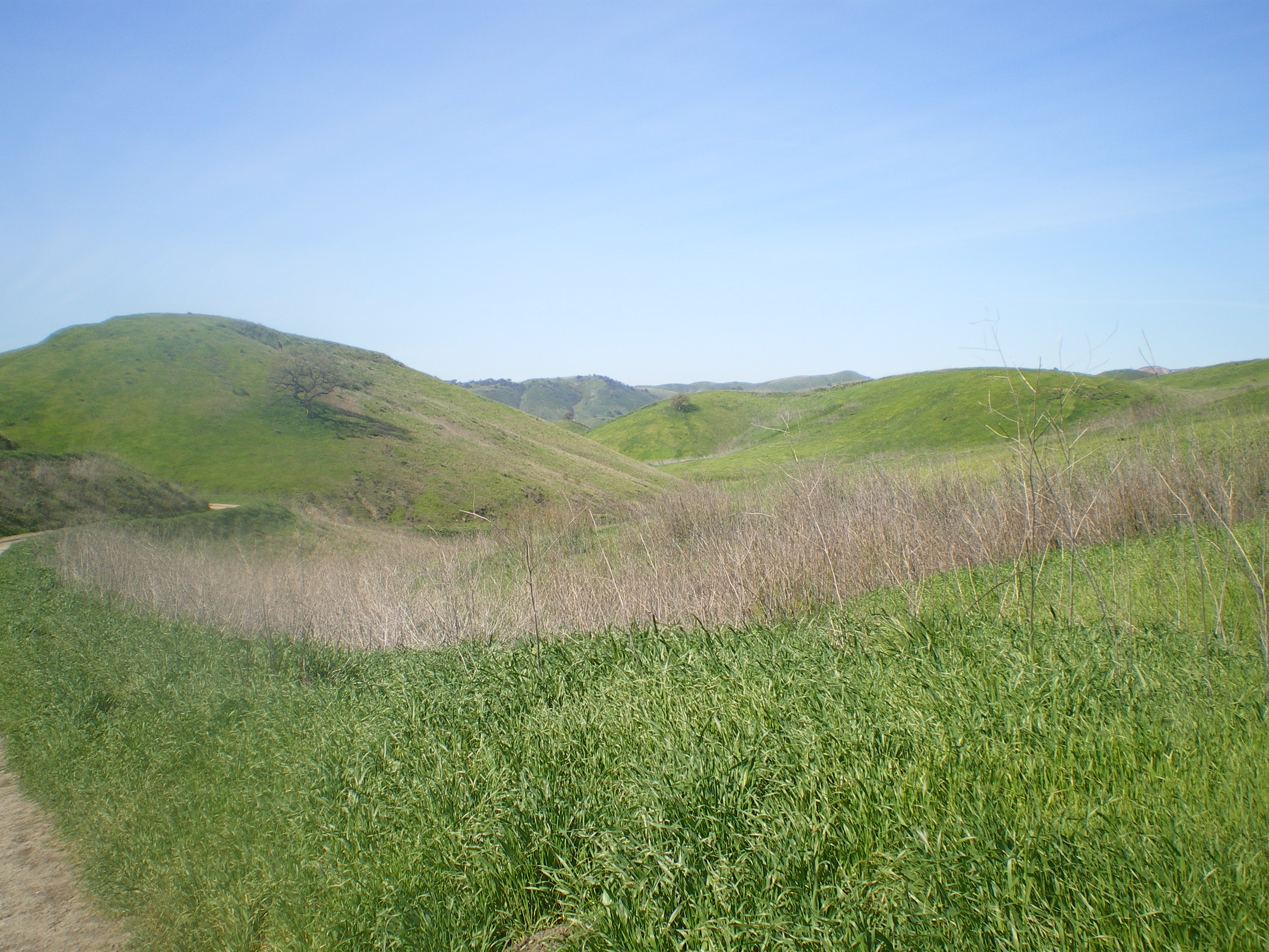 Rolling hills with grasslands, at the the Upper Las Virgenes Canyon Open Space Preserve in the Simi Hills. In Ventura County near West Hills and the western San Fernando Valley, Southern California.